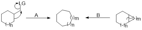 A scheme showing generalized methods for performing a ring expansion.